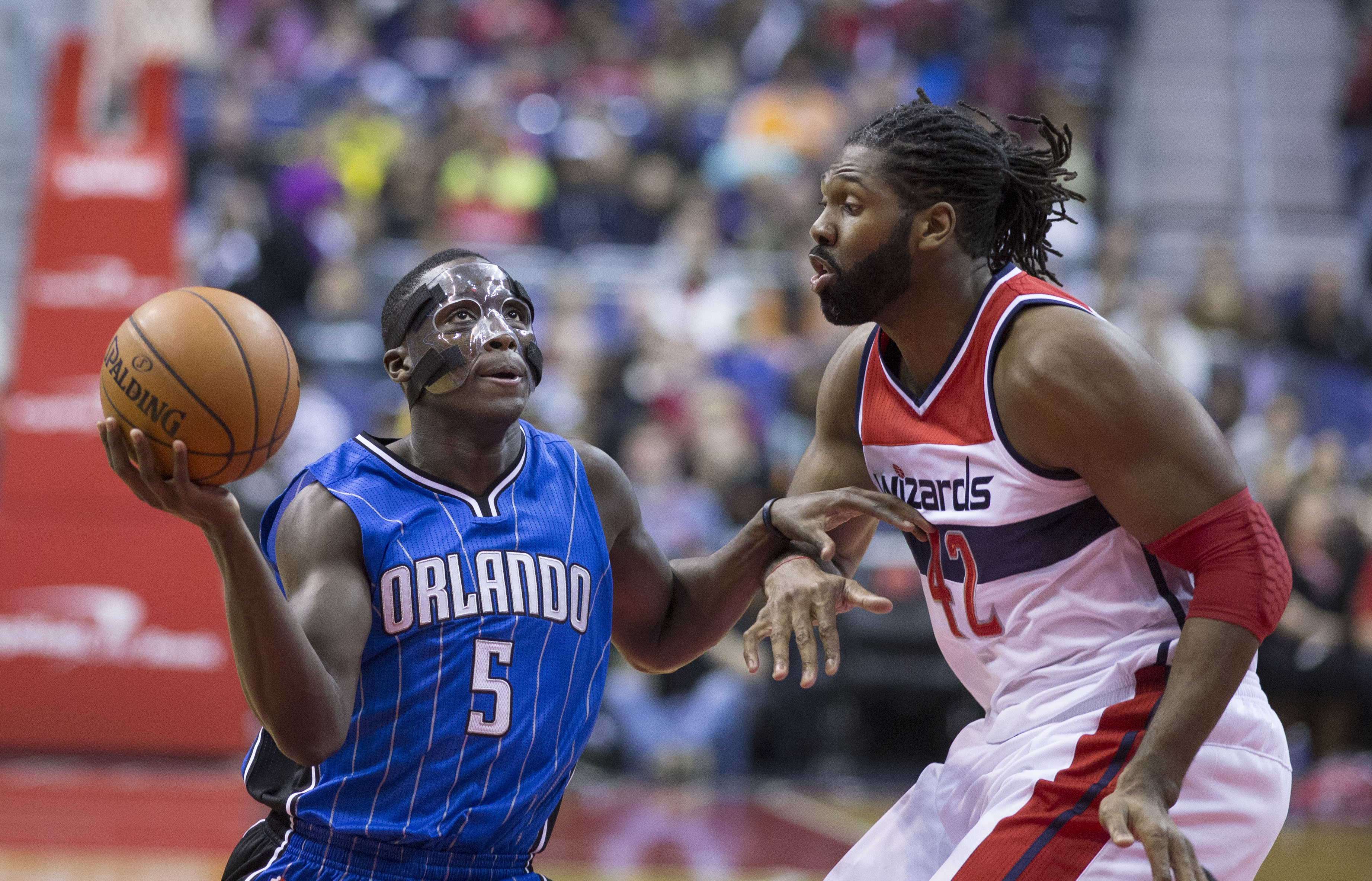 Victor Oladipo of the Orlando Magic drives to the basket during the game on November 15, 2014 at Verizon Center in Washington, DC.